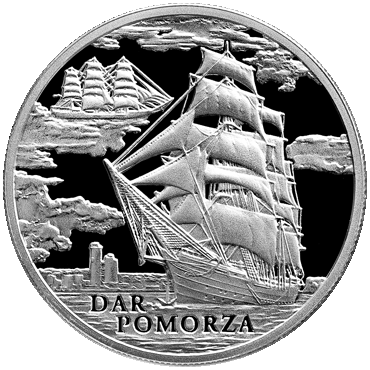 Belarus commemorative coins "Dar Pomorza" ("The Gift of Helping")